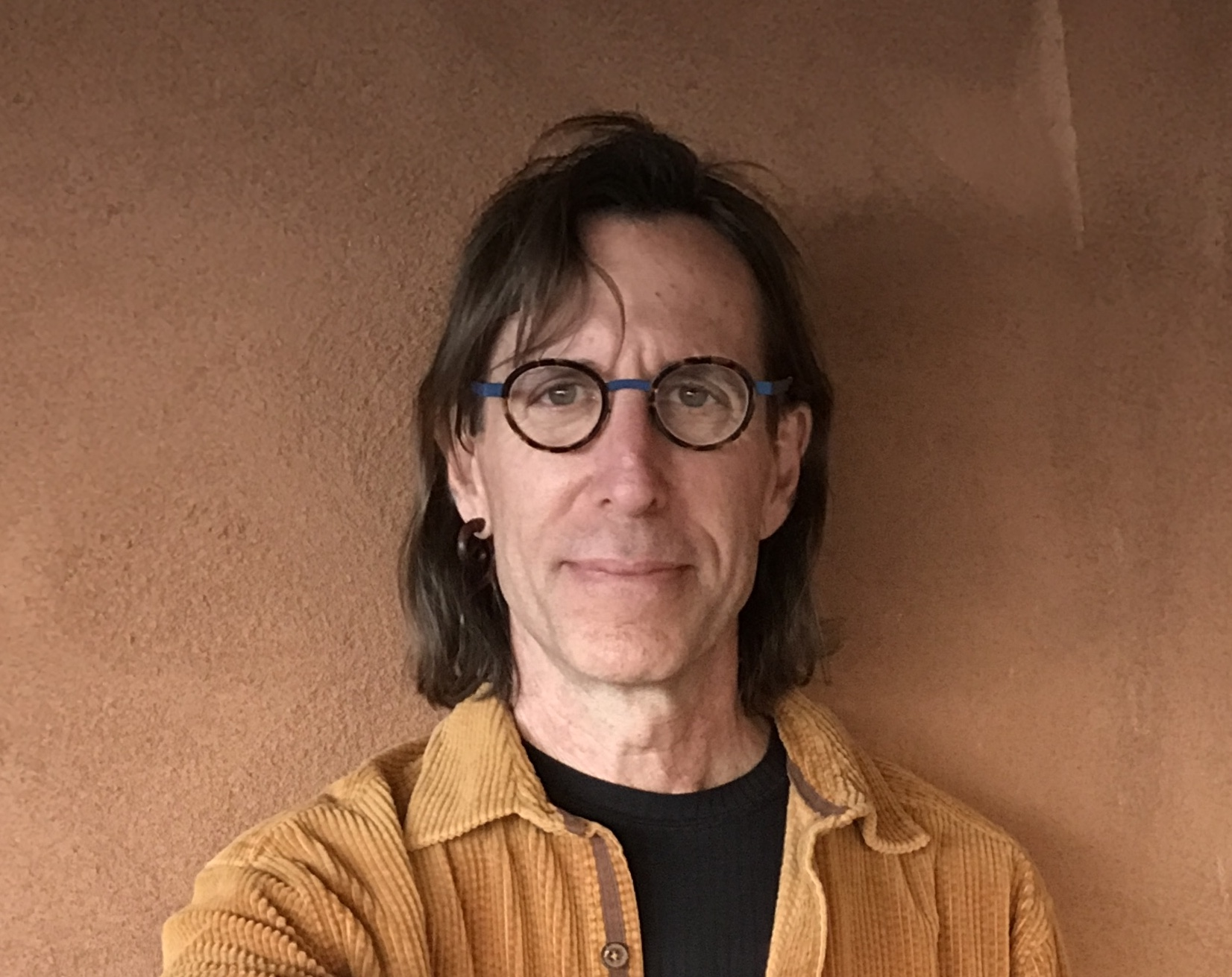 photo of David Abram, 2018